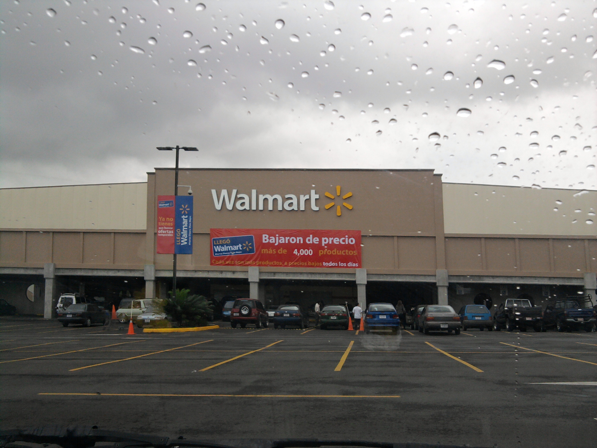 Walmart store ubicated in the province of Cartago, Costa Rica